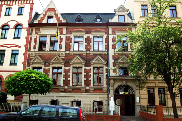 Residence of the Wingolf in Halle (Saale), Robert-Blum-Straße 35.